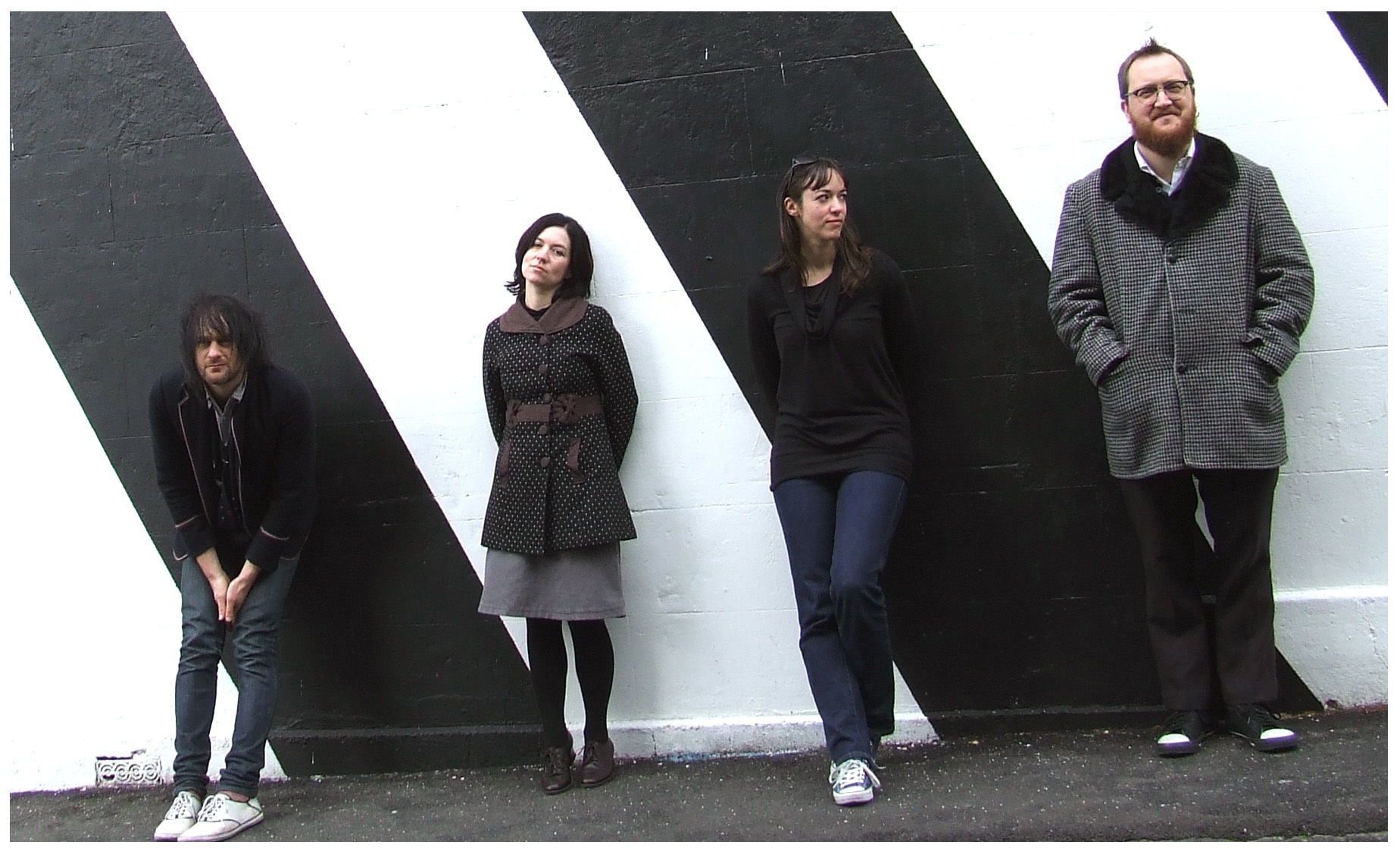 Ninetynine band photo for the release of Bande Magnetic 2010